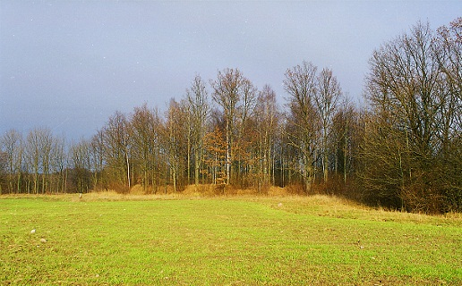 Laiviai mound, Kretinga district, Lithuania